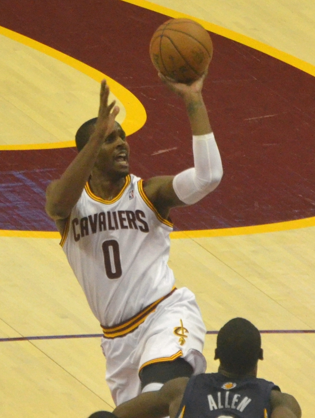 C. J. Miles